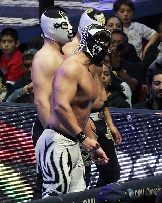 Cuarero, Sanson and Forastero during a match on November 30